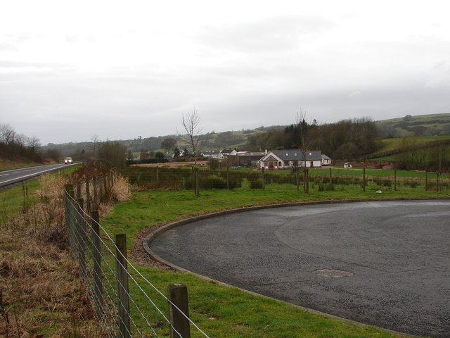 Ringford - from Beechy Cottage View from east end of Ringford by the turning circle of old A75 (Beechy Cottage). Looking SW toward Ringford Village with the A75 trunk road on left.